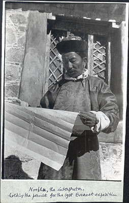 To celebrate New Year's Day we invited the following to a luncheon party: the Prime Minister; the four Shappes - or Cabinet Ministers - Langchunga, Bhondong, Tendong and Kalon Lama; the Yapshi Kung, or Grand Duke: Tsarong Dzaza, and Chikyap Khempo, the head of the Ecclesiastical party. ... On arrival the first act of the Cabinet was to hand to Norbhu a sealed packet made of coarse Tibetan paper, together with the customary white silk scarf of greeting. This turned out to be the permission for an Everest Expedition in 1938. The Cabinet had been considering the question for some weeks and it struck us as an act of the greatest courtesy to hand over the permit so unostentatiously as a New Year's present" ['Lhasa Mission, 1936: Diary of Events', Part XII p.1 , written by Chapman] [MS 23/03/2006]